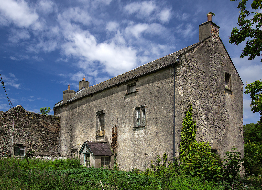 Castles of Munster: Ballygunner, Waterford (3)